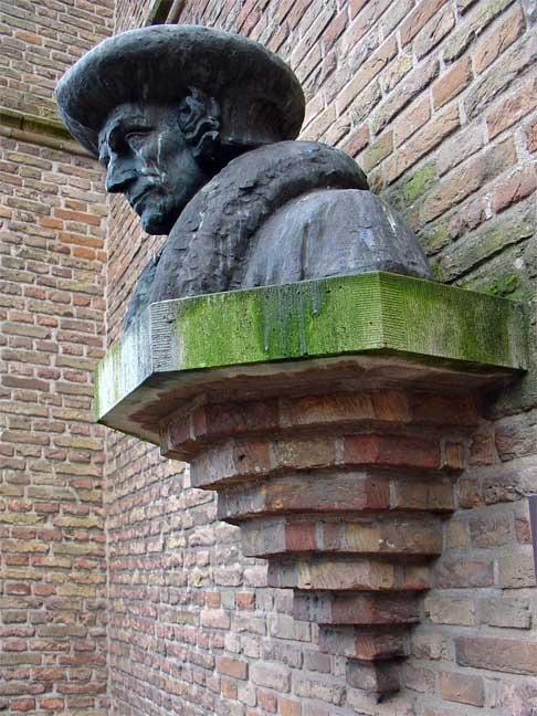 bust of Ermasmus, made by Hildo Krop in 1950 and situated at Gouda.